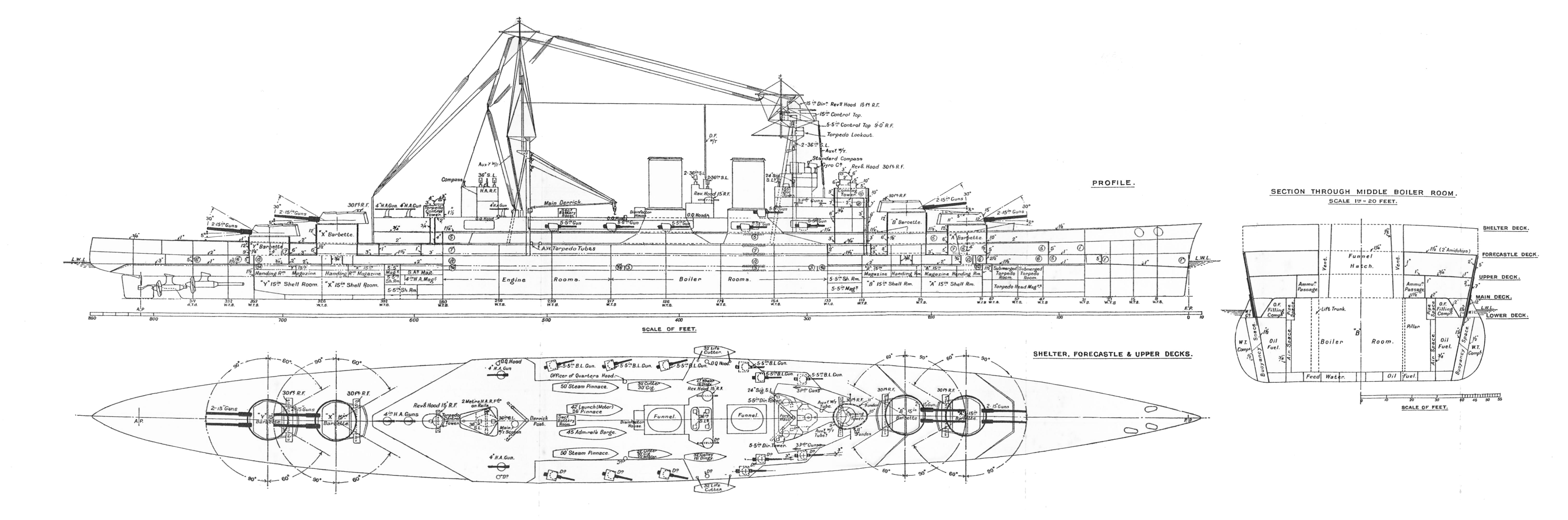 Fig. 28 HMS Hood Battle Cruiser